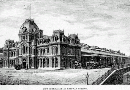 The Intercolonial Railway's North Street Station in Halifax, Nova Scotia as depicted in the Canadian Illustrated News at the time of the station's construction.